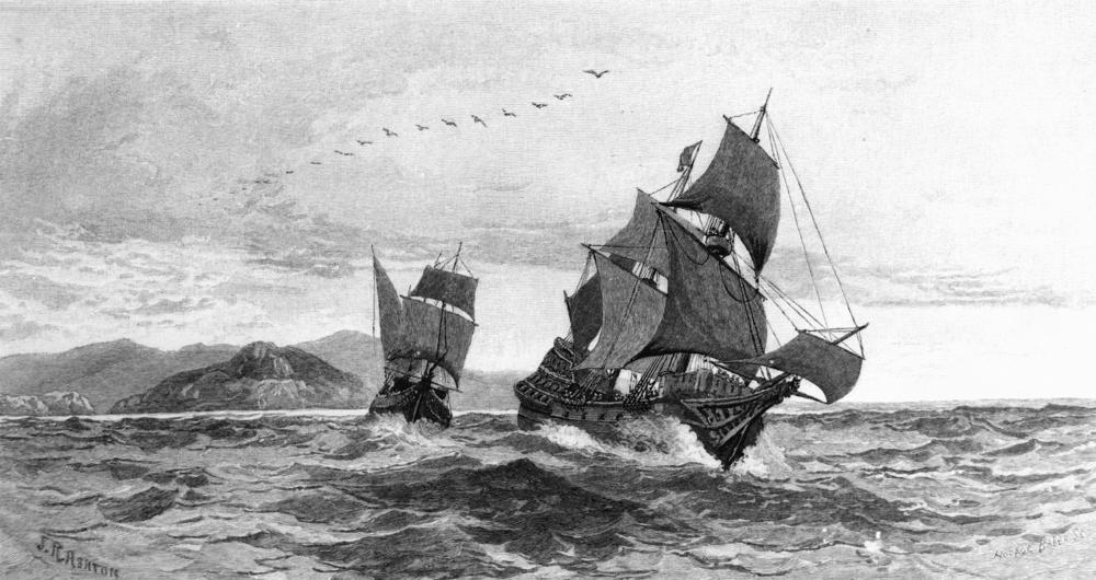 San Pedrico (ship) Luis Vaez de Torres sighting Cape York. (Information taken from: Picturesque Atlas of Australasia, v. 1, 1886).